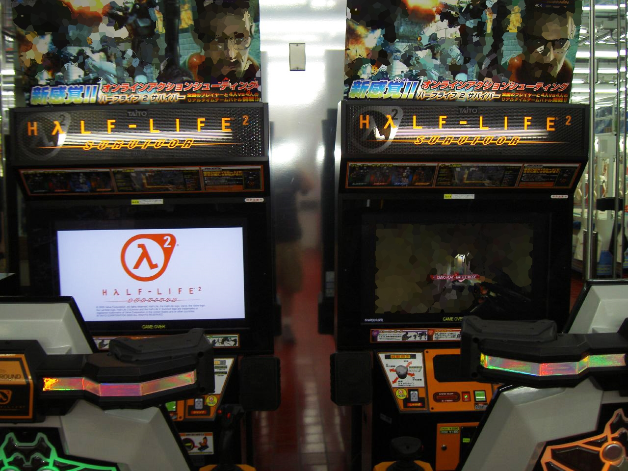 The back of two Half-Life 2 Survivor cabinets.